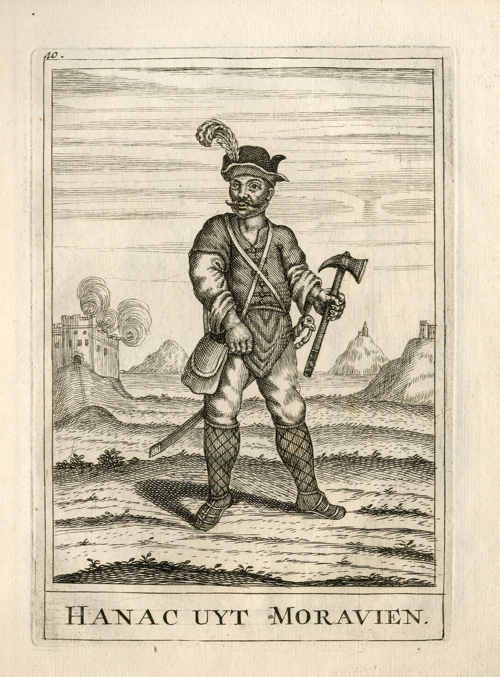 Illustration